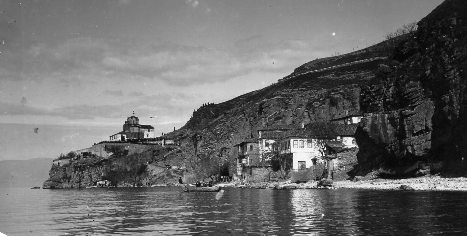 Postcard of Ohrid, Church of St. John at Kaneo from 1930's This media file is produced by Wikipedian in Residence in Category:Wikipedian in Residence at DARM in 2016.